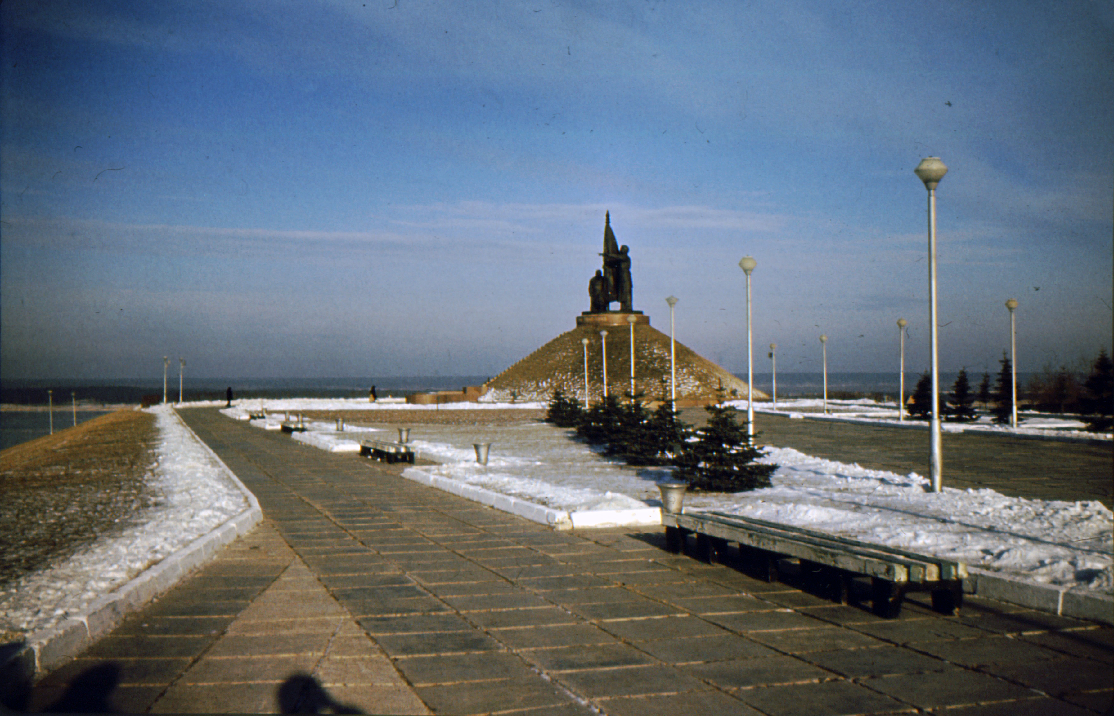 Victory Park (Park Pobeda), Cheboksary, Russia